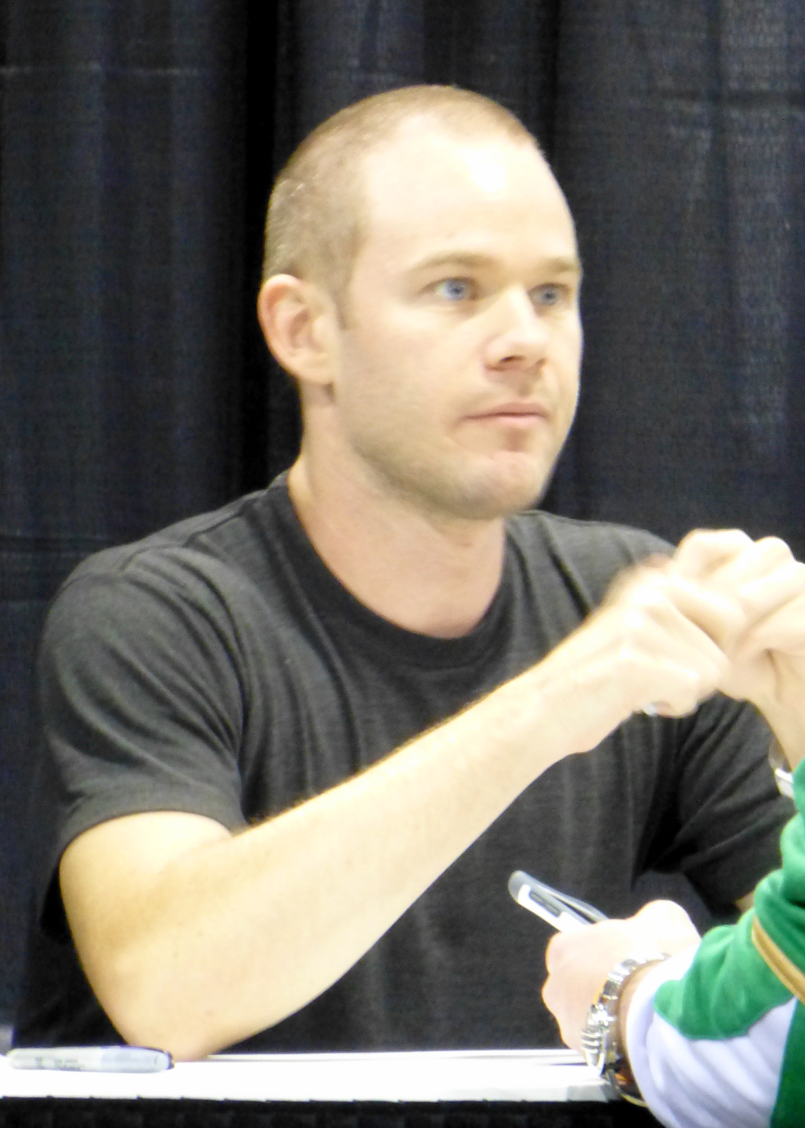 Aaron Ashmore 02